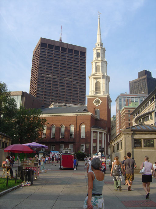 Park Street Church in Boston, Massachusetts Photo taken by me with a Sony Cybershot digital camera, summer 2006. MamaGeek (talk/contrib) 12:24, 25 August 2006 (UTC)